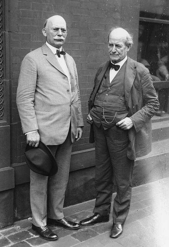 C.W. & W.J. Bryan. Brothers Charles W. Bryan at left; William Jennings Bryan at right. Undated Bain News Service photograph, appears to be from the 1910s or early 1920s.